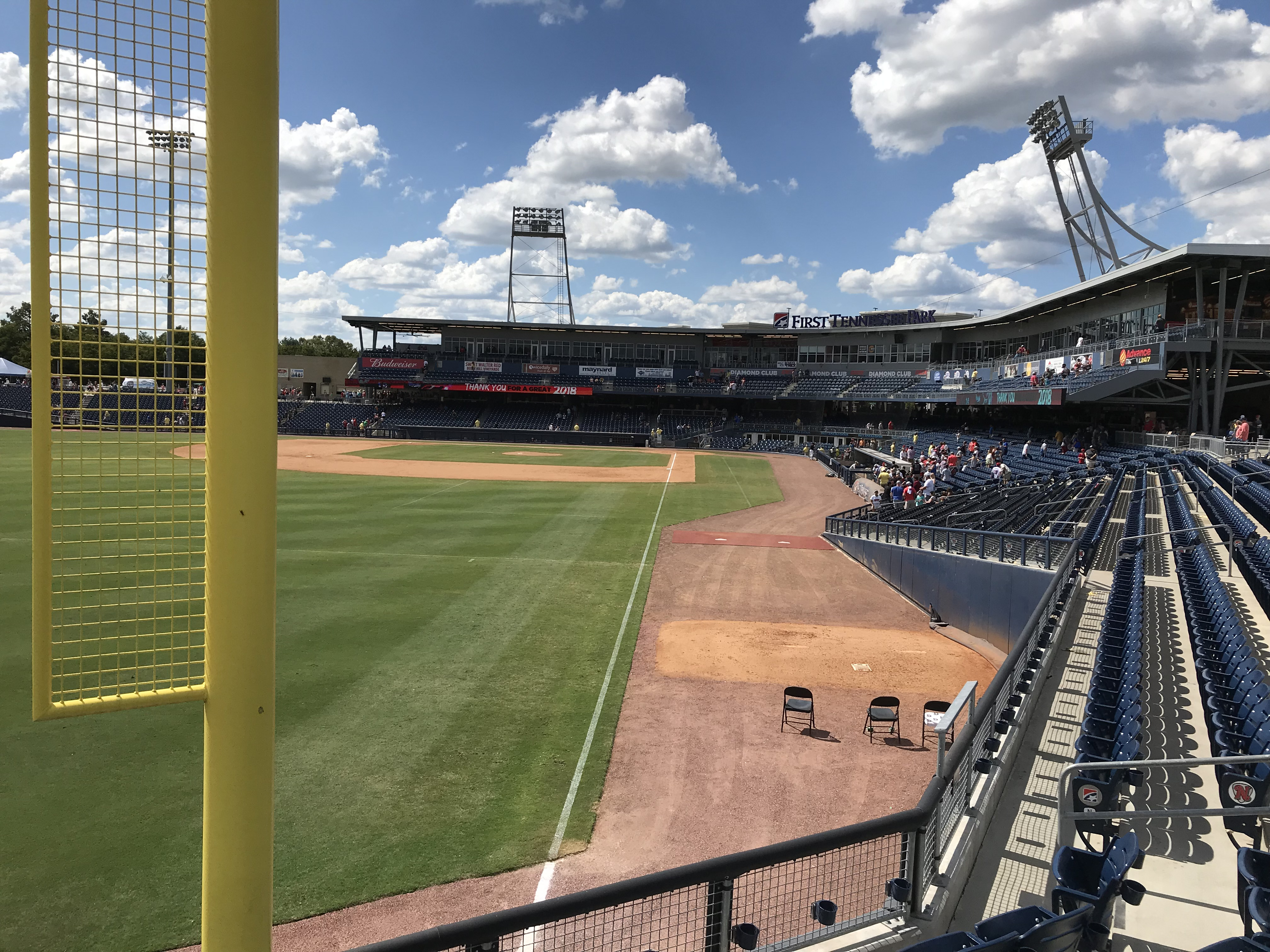 First Tennessee Park viewed from behind the left field foul pole.